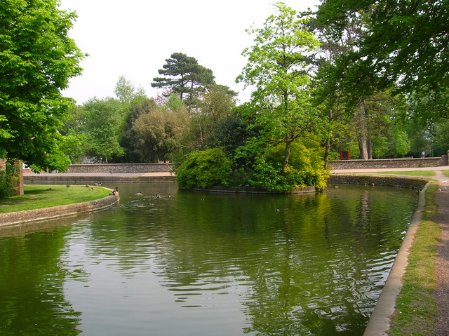 The Pells The Pells is the name given to the wetlands on the north eastern side of the town. The bulk of the area between the river and the railway have been put aside as a reserve whilst the southern and eastern sides were given to the town as a public park in 1920. This view looks at the bend in the lake with the wall to a recreation ground beyond.